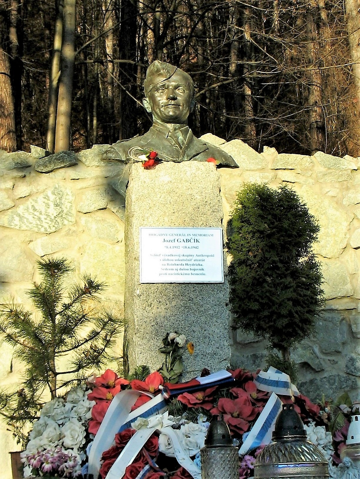 Memorial to Jozef Gabčík in Poluvsie, Žilina District, Slovakia